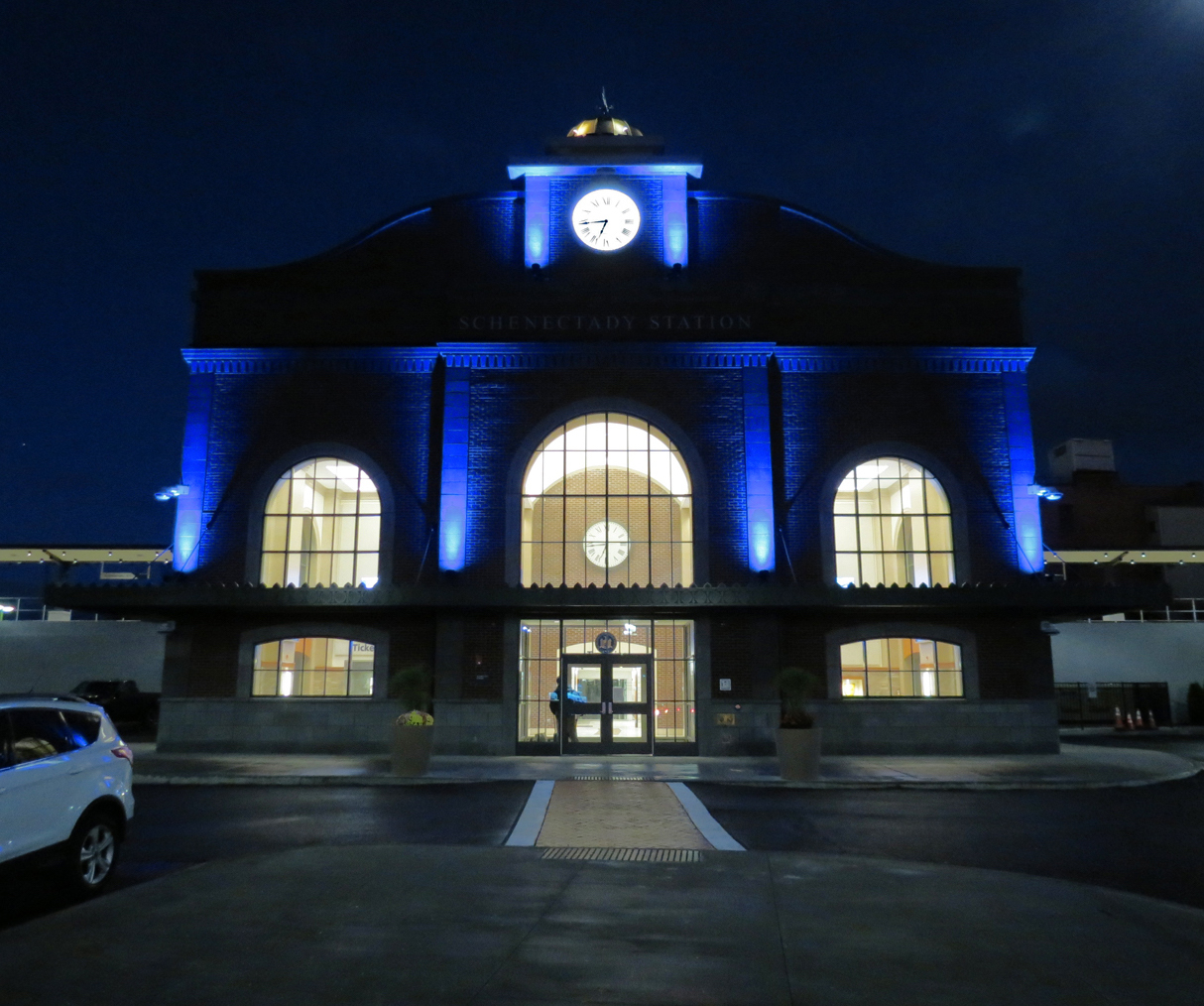 Front of new rail station on opening day, Oct 17, 2018